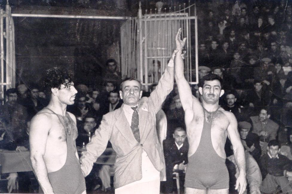 Winner